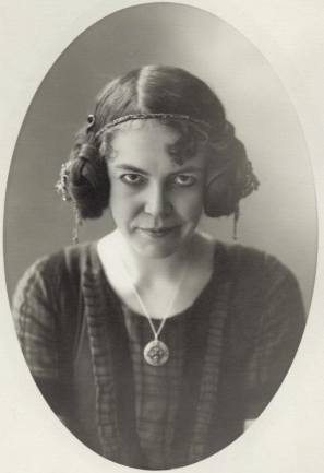 Ebba Orstadius Swedish artist